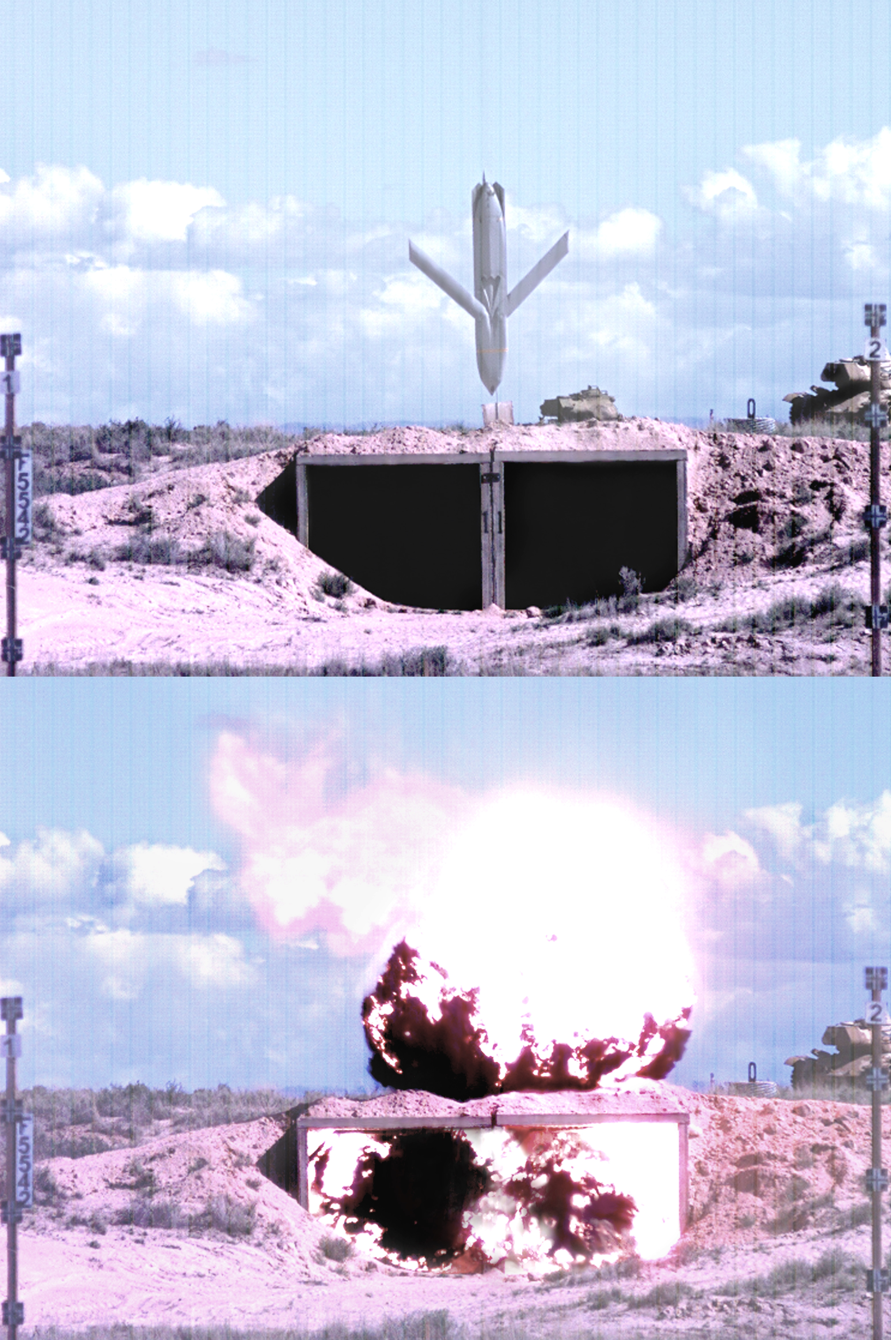 The Joint Air-to-Surface Standoff Missile, or JASSM, is seen during Lot 7 testing prior to impact and the very early phase of the warhead detonation. The target was a concrete hardened structure slightly buried. JASSM Reliability Testing was conducted at White Sands Missile Range, N.M., from Sept. 10 - Oct. 4, 2009.